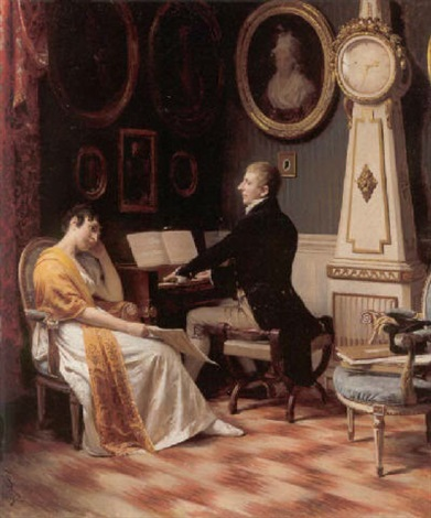 Weyse i det Tutein'ske hus , 1892